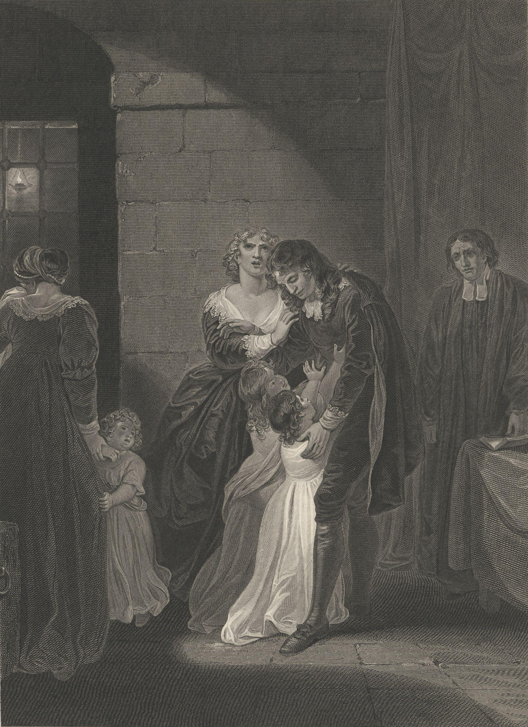 Detail of Lord W. Russell's last interview with his family' (William Russell, Lord Russell), by George Noble (floruit 1806), published 1796.